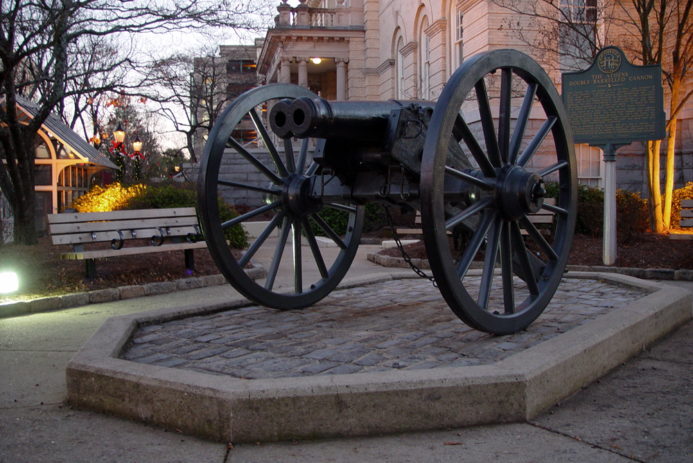 A photograph of the Double-barreled cannon in Athens, Georgia, United States.